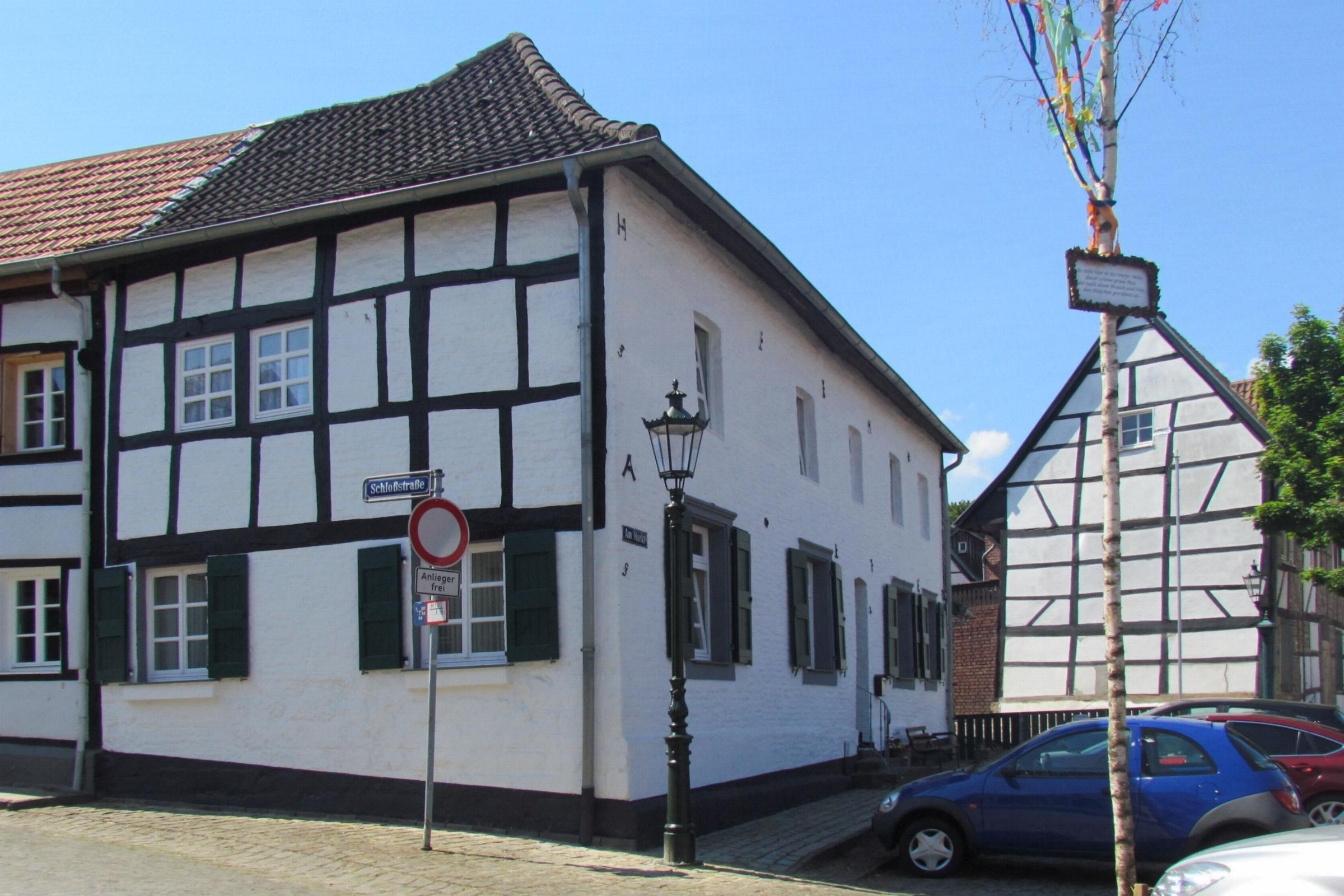 This is a photograph of an architectural monument.It is on the list of cultural monuments of Korschenbroich